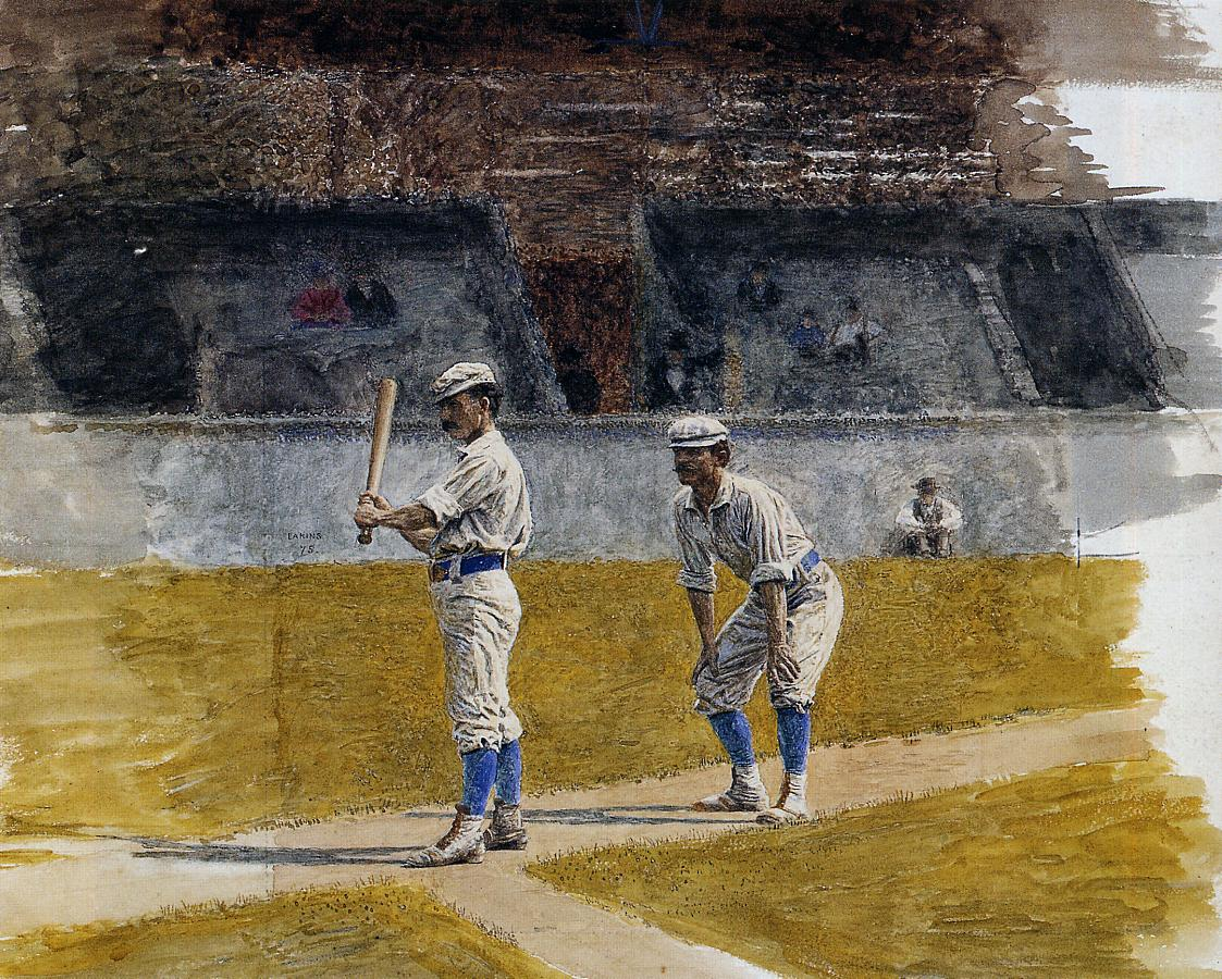 "Baseball Players Practicing," watercolor, by the American artist Thomas Eakins. Courtesy of the Rhode Island School of Design Museum of Art.